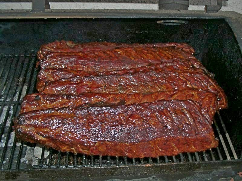 Baby back ribs (a.k.a. loin ribs, back ribs, or Canadian back ribs) are taken from the top of the rib cage between the spine and the spare ribs, below the loin muscle. The designation "baby" indicates the cuts are from market weight hogs, rather than sows.